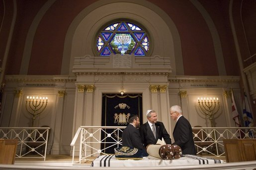 President Bush visiting the 6th and I Historic Synagogue in Washington, DC on Sept 14, 2005. (From Left to Right) Rabbi Zvi Teitelbaum, President George W. Bush, and Synagogue President Shelton Zuckerman